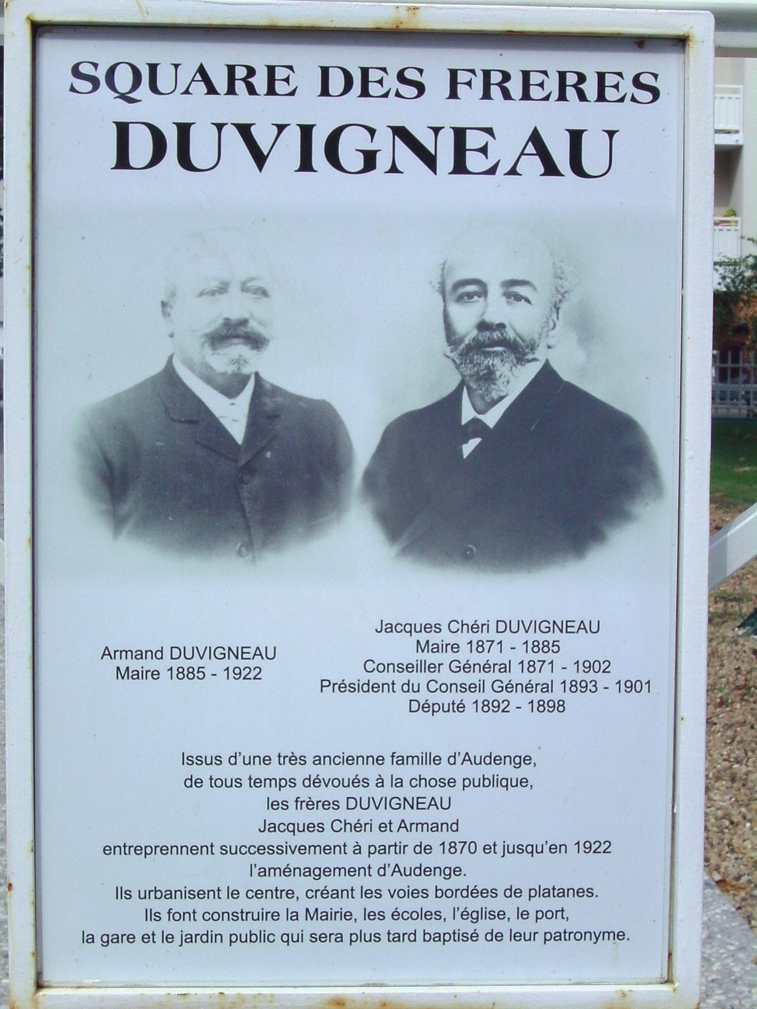 Square des Frères DUVIGNEAU à Audenge